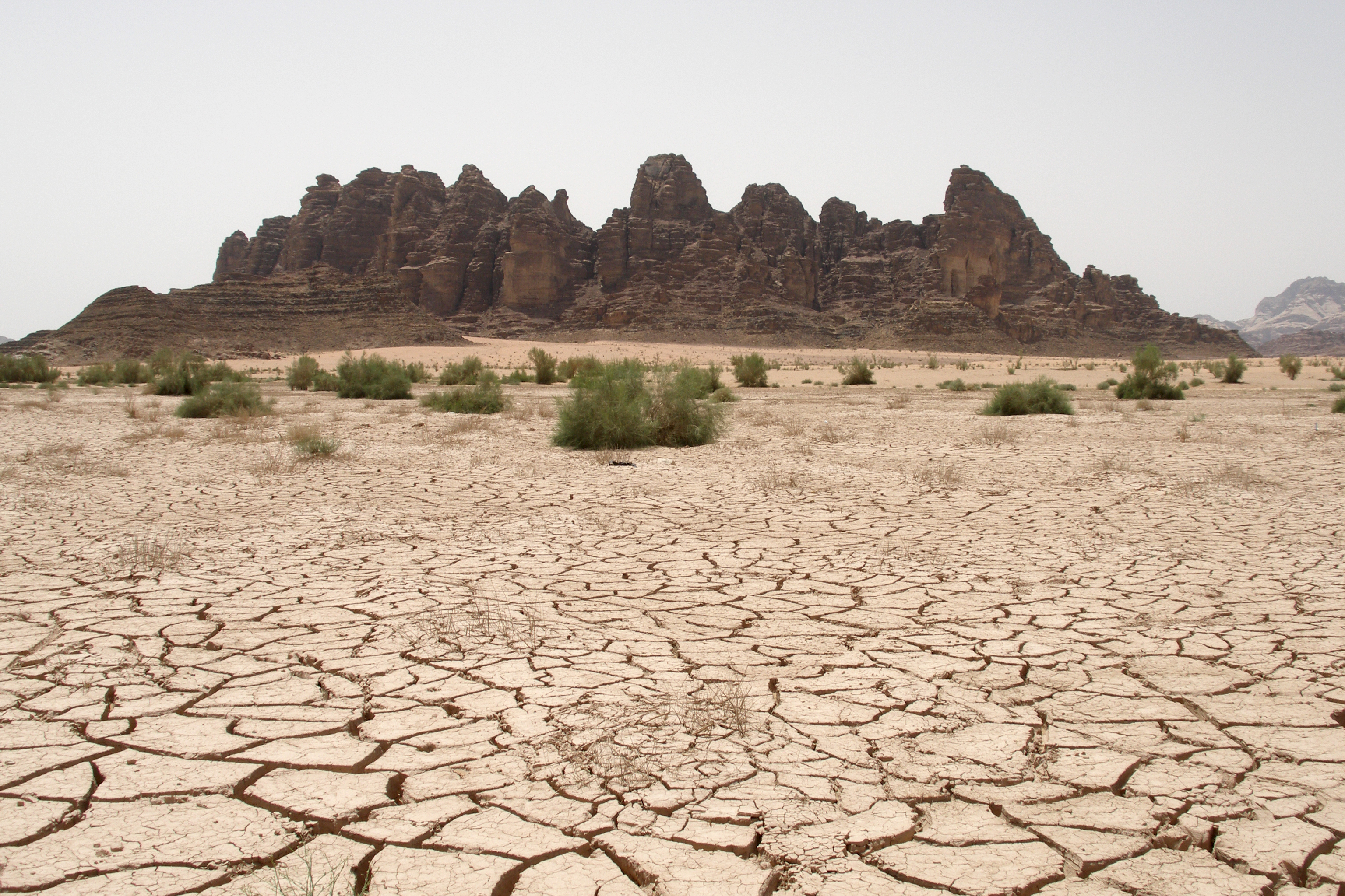 Wadi Rum is a spectacularly scenic desert valley in southern Jordan. Masses of soaring cliffs and sandstone and granite mountains. Wadi Rum rocky formations are made mostly of sandstone (clastic sedimentary rock of quartz or feldspar) and granite rock.